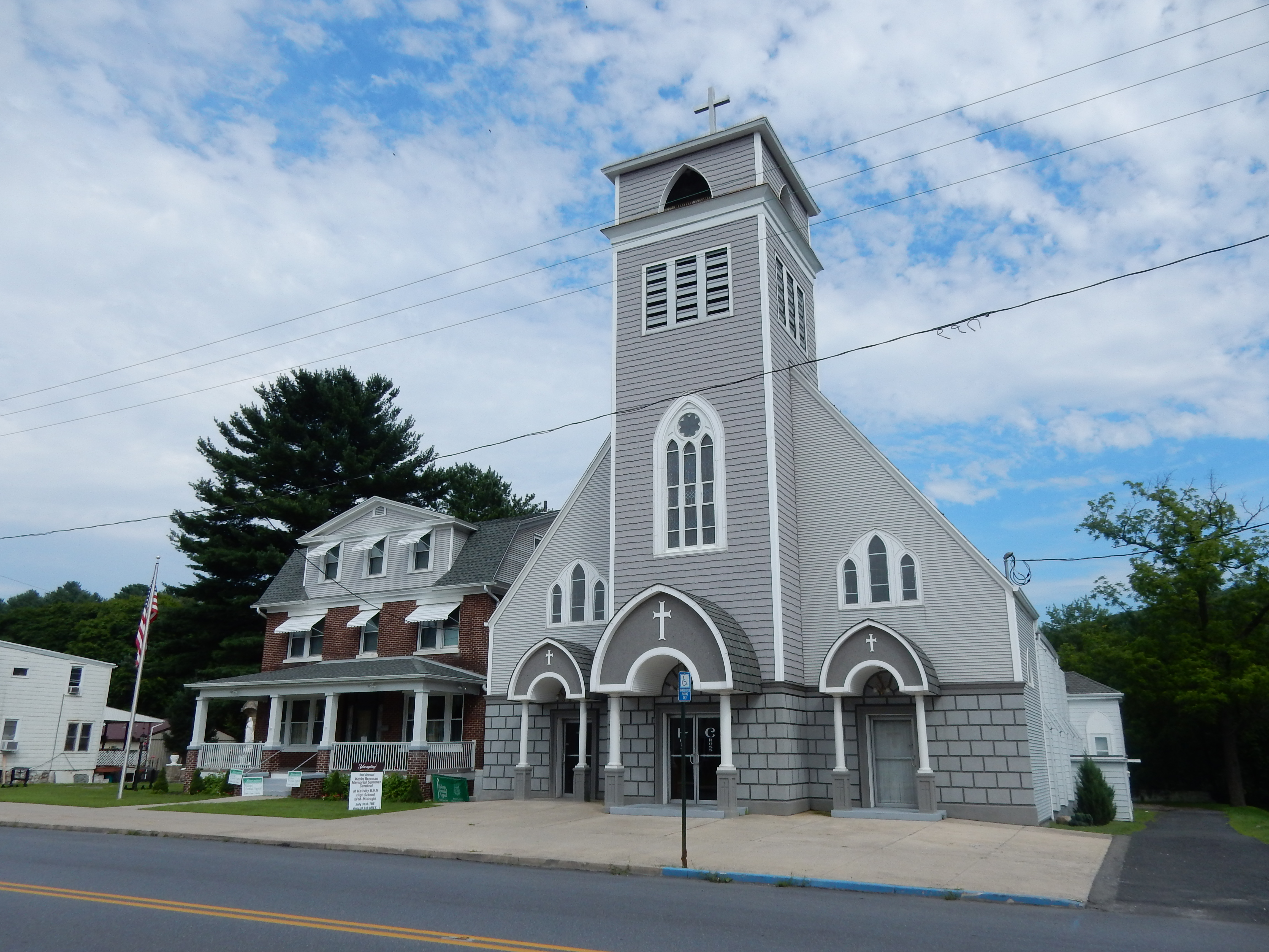 Holy Cross Roman Catholic Church, New Philadelphia, Schuylkill County, Pennsylvania. Valley St. (U.S. Route 209).